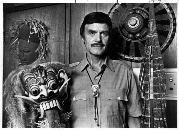 John Goddard showing his collection of memorabilia